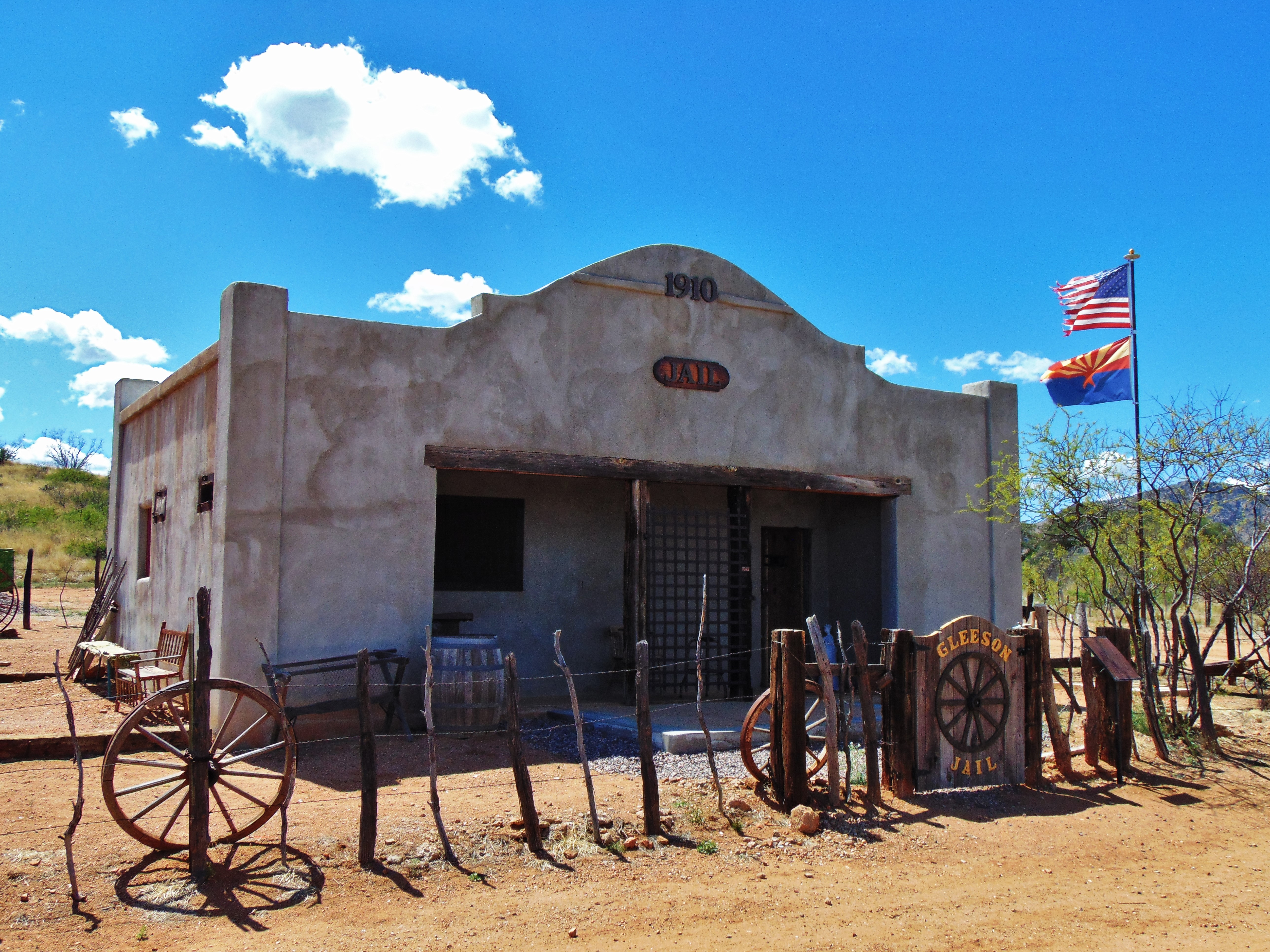 The historic Gleeson Jail in Gleeson, Cochise County, Arizona. Now a local history museum, the Gleeson Jail was built of concrete in 1910 to replace an earlier wooden-frame jail and an earlier oak jail tree. The metal cell door on display in the center was used in the original wooden jail.